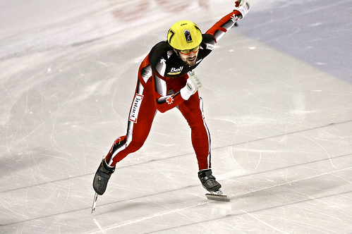 Charles Hamelin skates to the finish at the World Cup event at Maurice Richard Arena in Montreal, 2009. uploaded to flicker by gmayster01 Date retrieved: January 15th